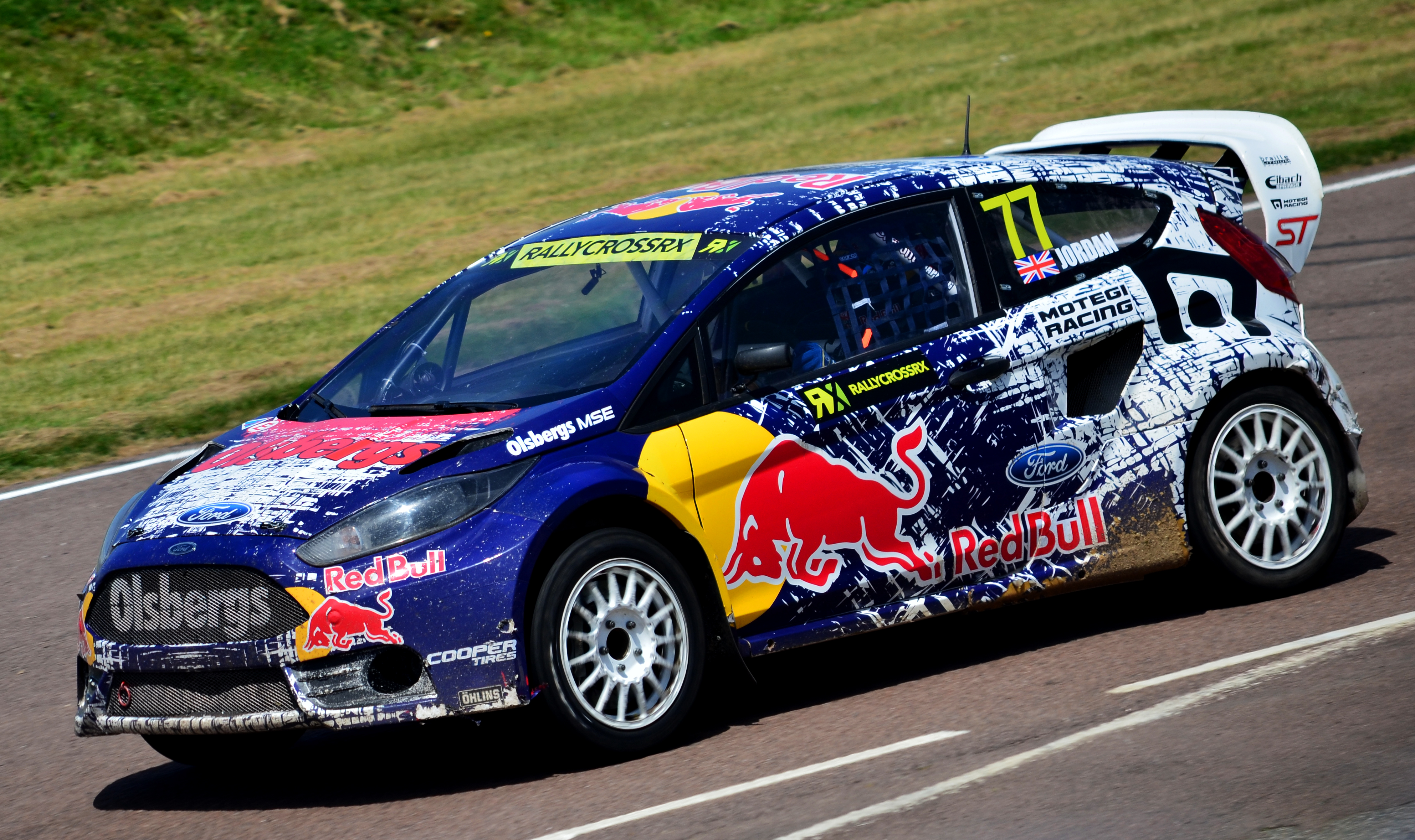 British Touring Car champion Andrew Jordan returns to rallycross at Lydden Hill for round 2 of the 2014 FIA World Rallycross Championship.